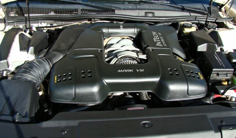 Engine bay of 1996 Lincoln Mark VIII with 4.6L InTech V8.